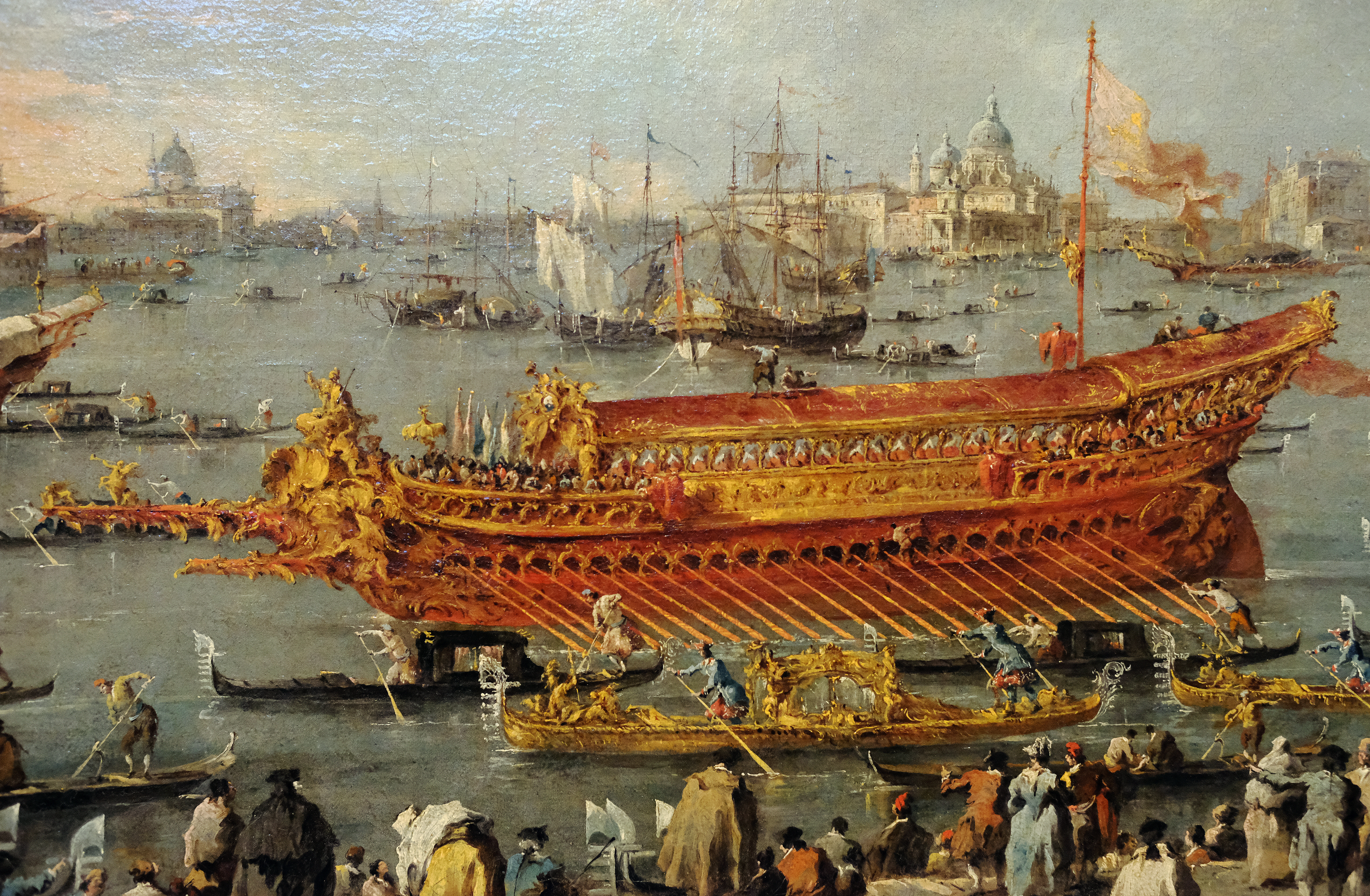 Part of the series Solennità dogali.